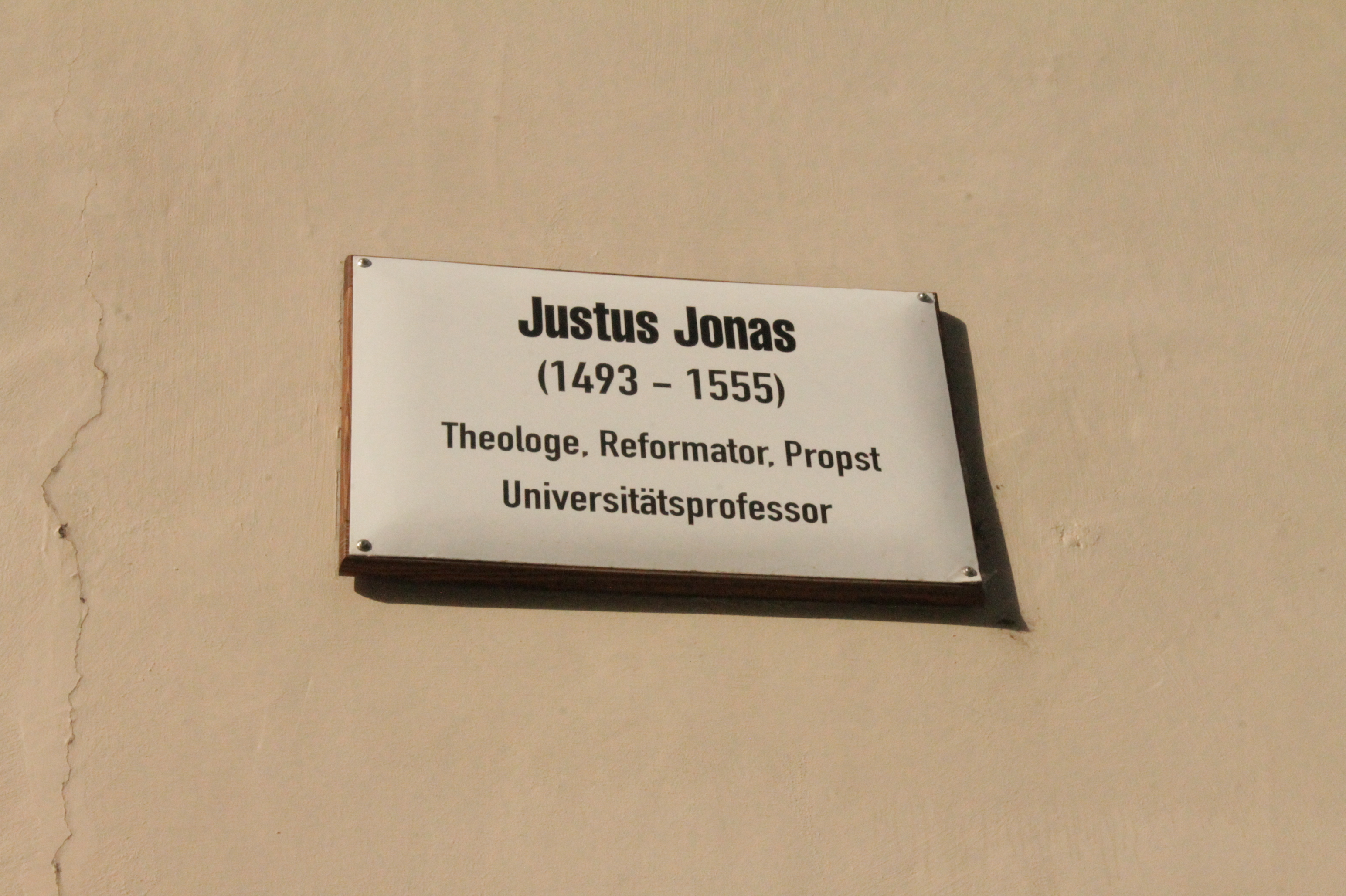 Plaque to Justus Jonas, Wittenberg north of the Schlosskirche